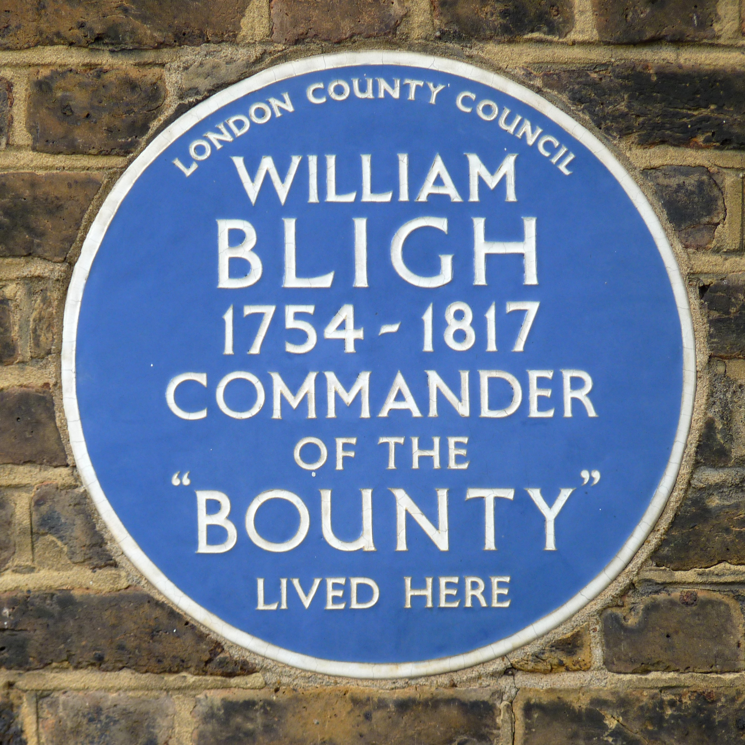 The blue plaque of William Bligh the commander of the Bounty